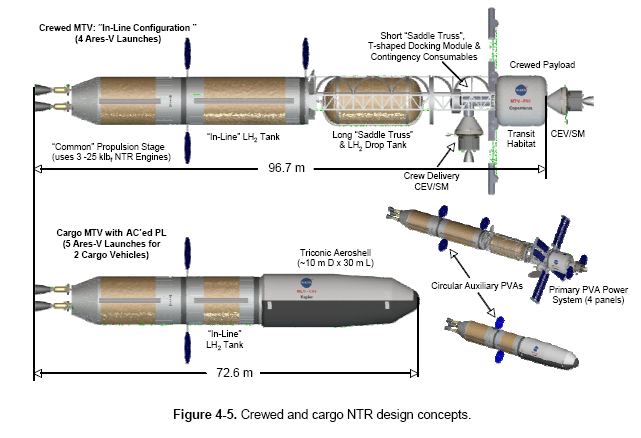 crew and cargo design concepts, from the NASA Design Reference Mission Architecture 5.0